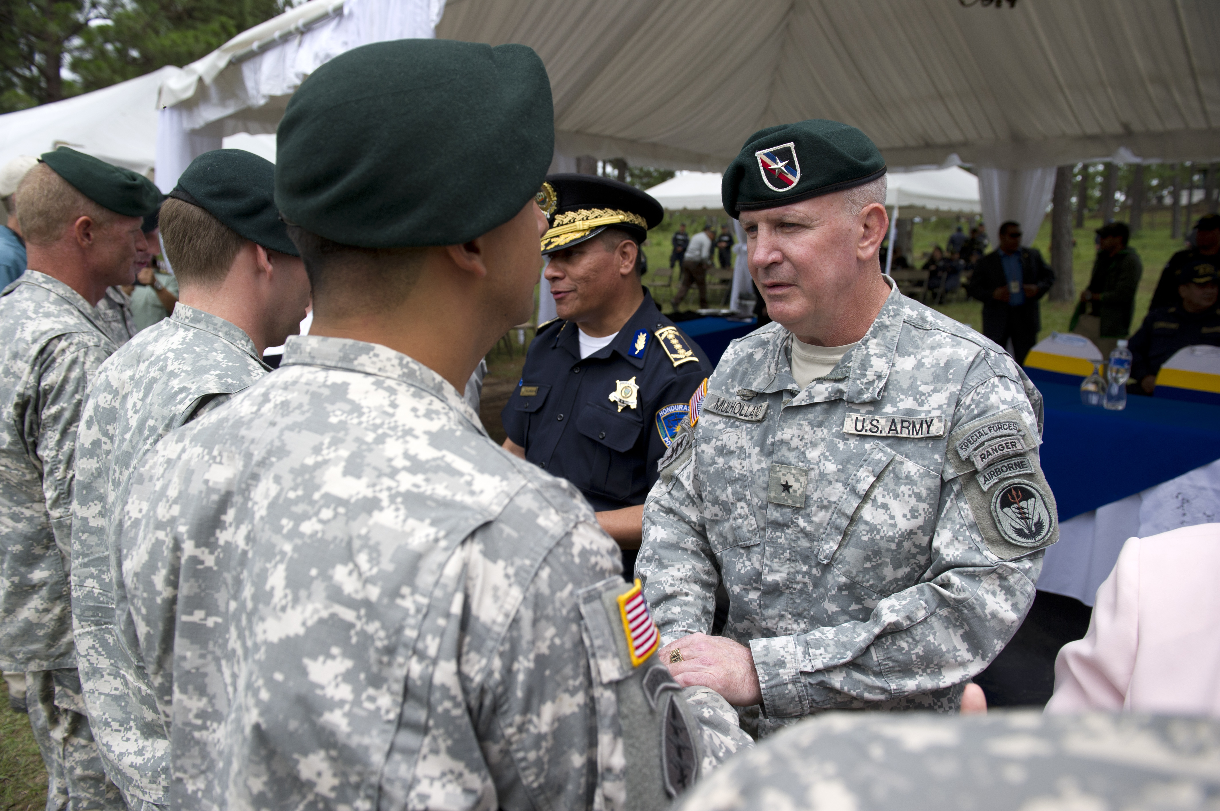 Brig. Gen. Sean P. Mulholland, Commander of Special Operations Command South, shakes the hand of a Green Beret from the 7th Special Forces Group (Airborne) June 19 in Tegucigalpa, Honduras. The Green Beret and other Special Forces soldiers from the 7th Special Forces Group (Airborne) and Junglas from the Colombian National Police trained Honduran TIGRES Commandos to be the force of choice for the Honduran government to capture high value narco-trafficking and criminal targets. SOCSOUTH is responsible for all U.S. Special Operations activities in the Caribbean, Central and South America and serves as a component for U.S. Special Operations Command and U.S. Southern Command.